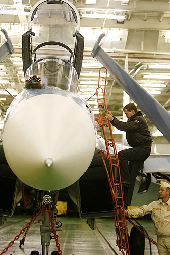 BARENTS SEA. On board the Aircraft Carrier Admiral Kuznetsov.